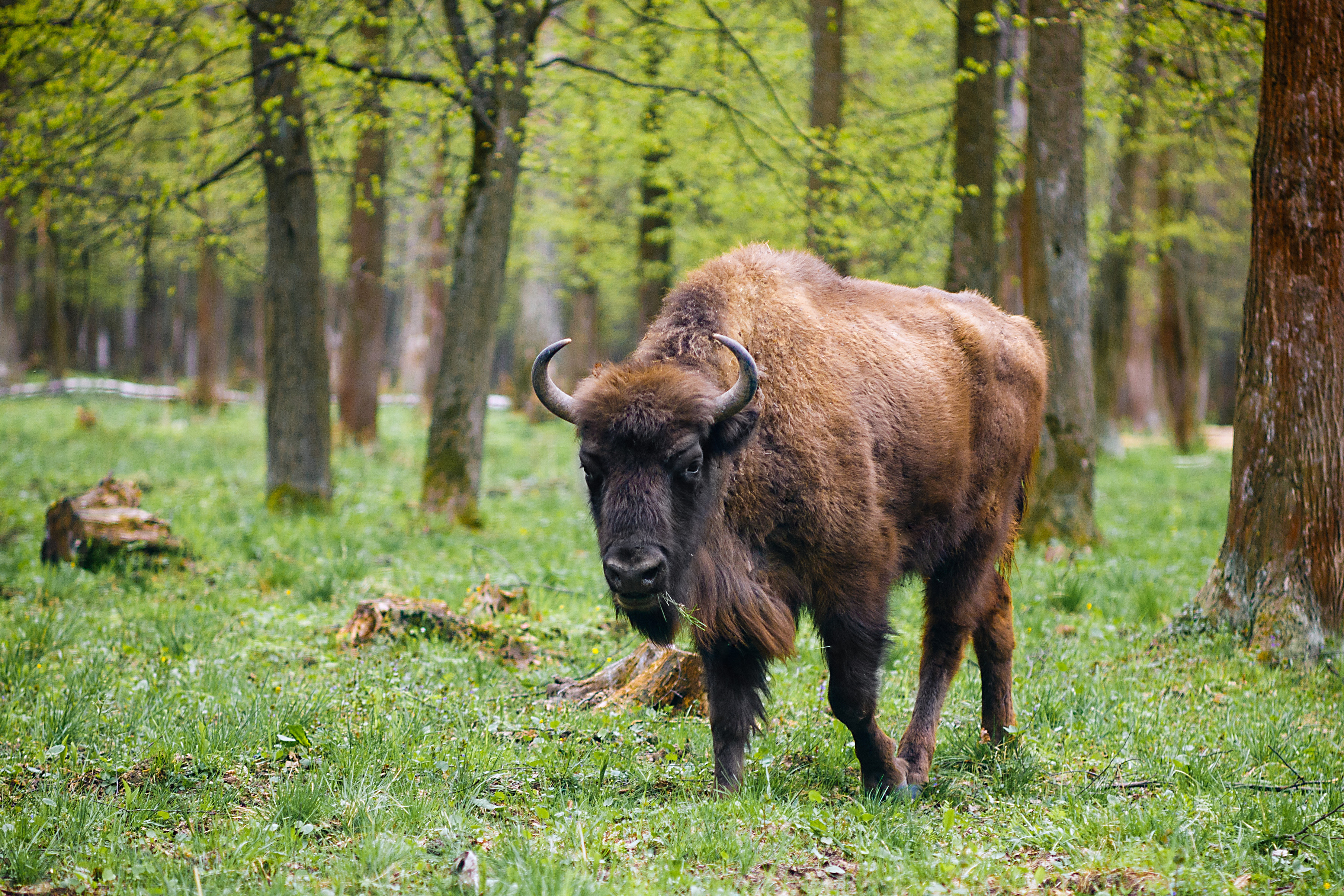 Bison bonasus in Central Russian Bisons nursery